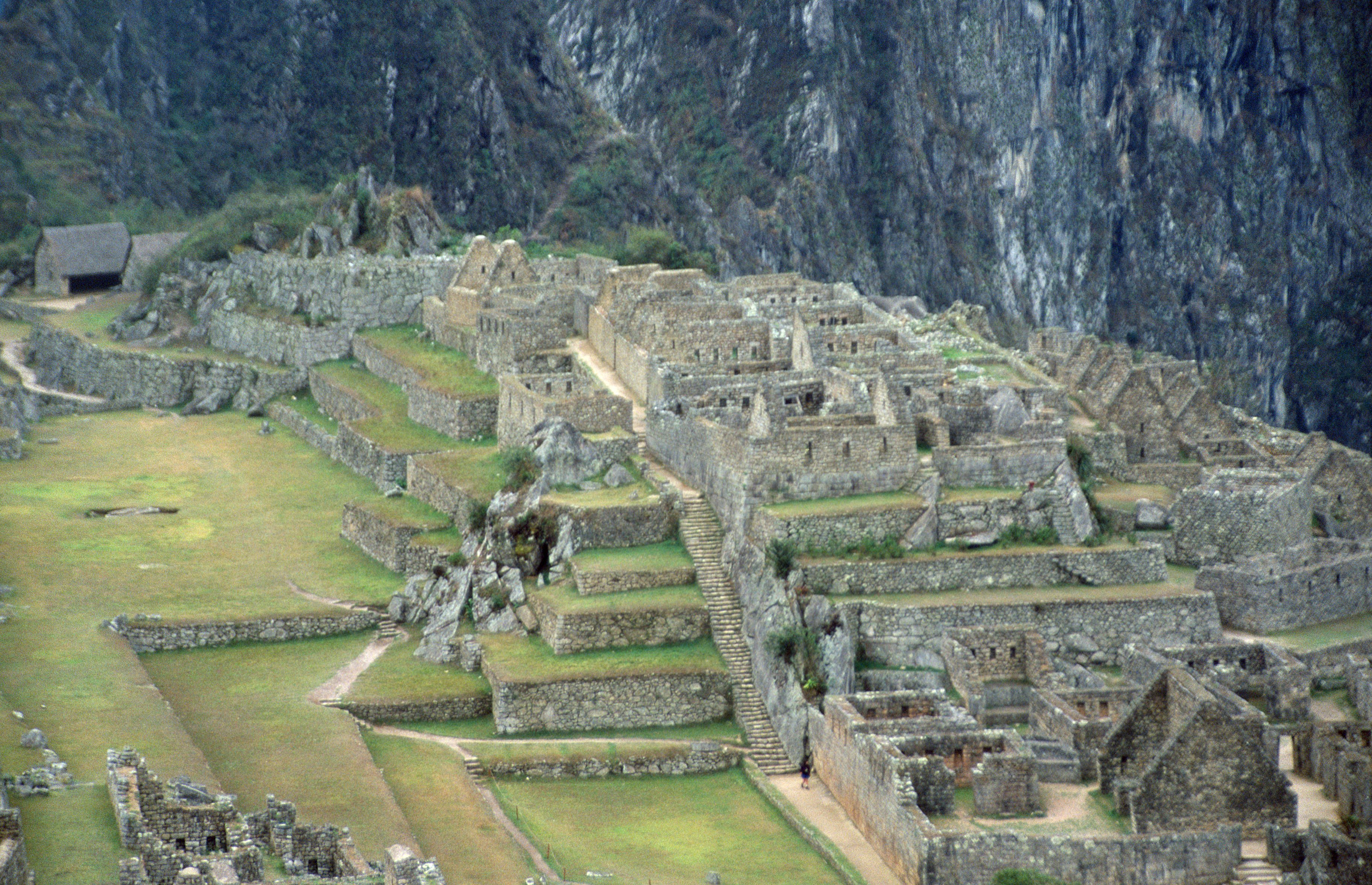 Machu Picchu, Perú. View of the Eastern Urban Sector. Residential area.